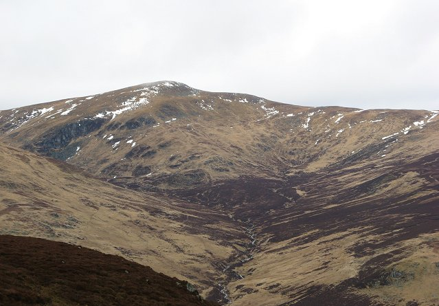 The Mayar from across Glen Prosen The Mayar (928m), one of the most popular 3000' hills in Scotland from Craigie Thieves to the south. Most folk go up from Glen Doll to the north.